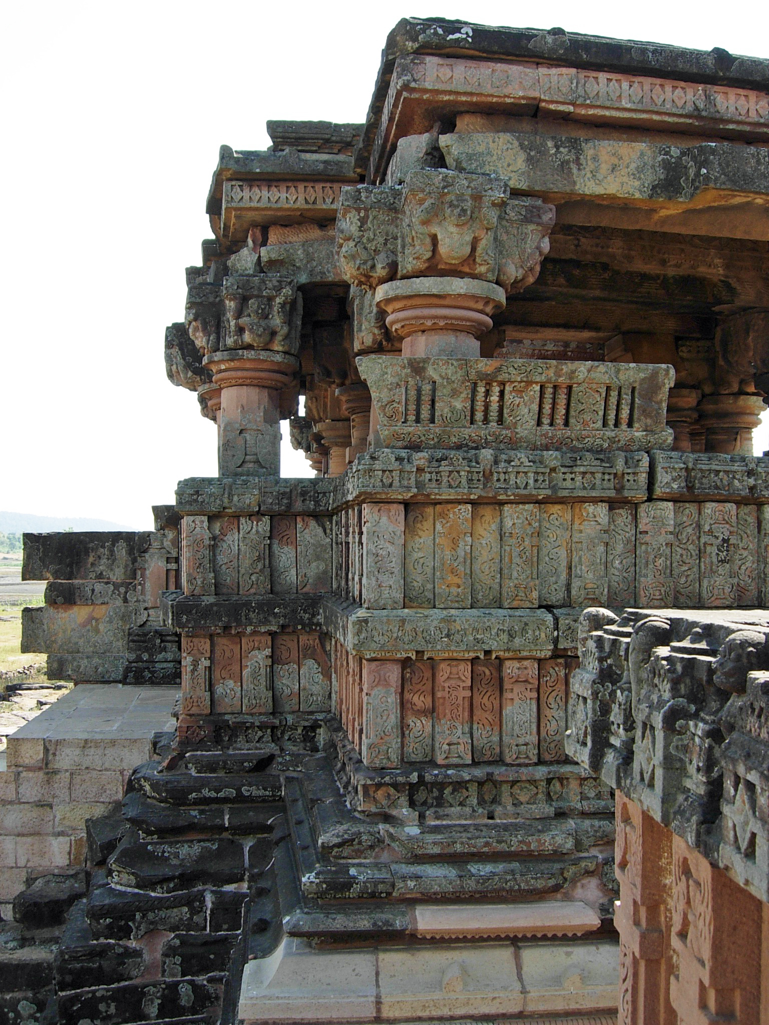 Madanpur (Lalitpur district, UP). Temple exterior, mandapa, north side.